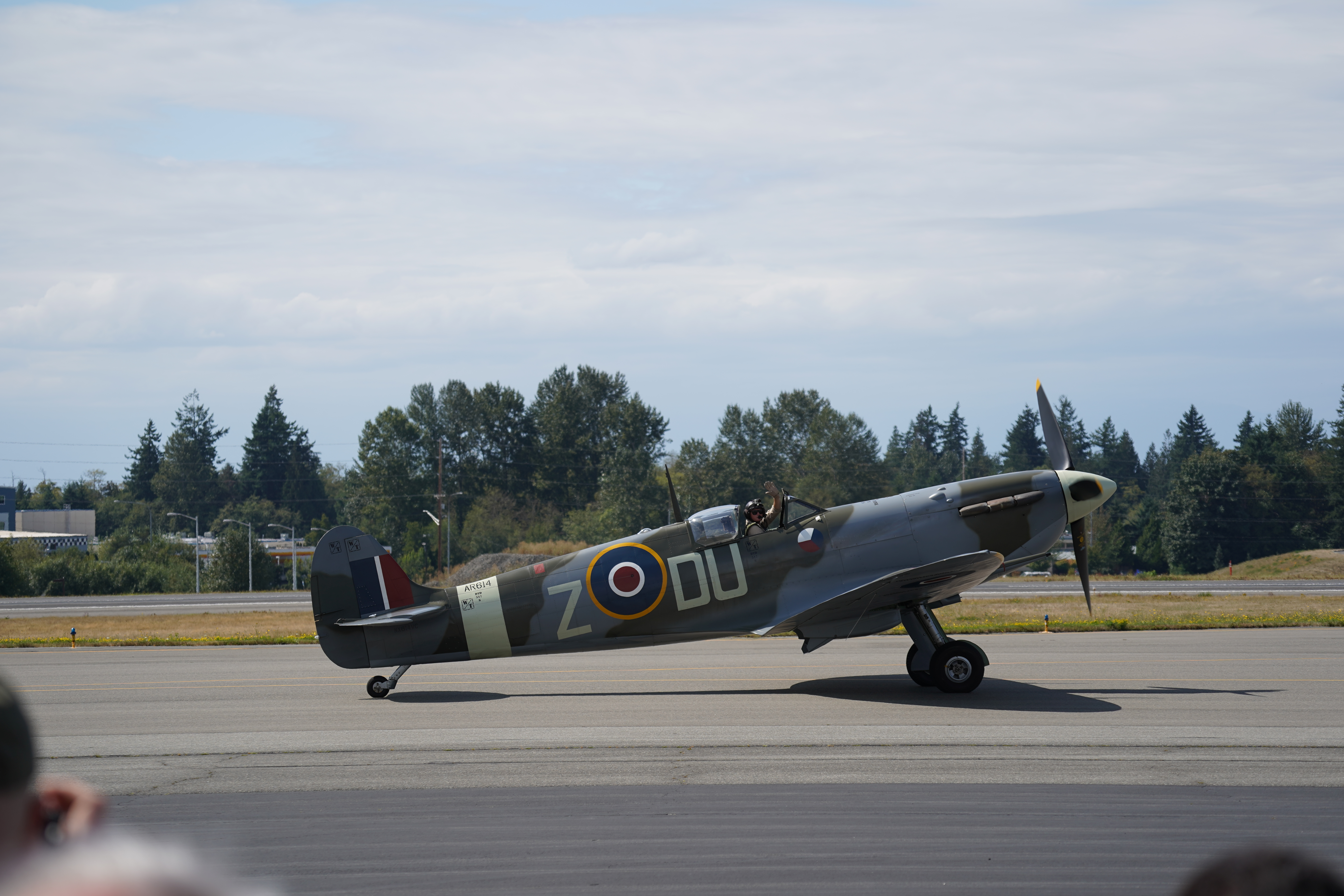 flown by Steve Hinton Jr. A photograph of a Supermarine Spitfire Mk.Vc flown at the Luftwaffe Fly Day event held by the Flying Heritage & Combat Armor Museum at Paine Field near Everett, Washington, USA. The pilot was Steve Hinton Jr, son of Steve Hinton, Sr.